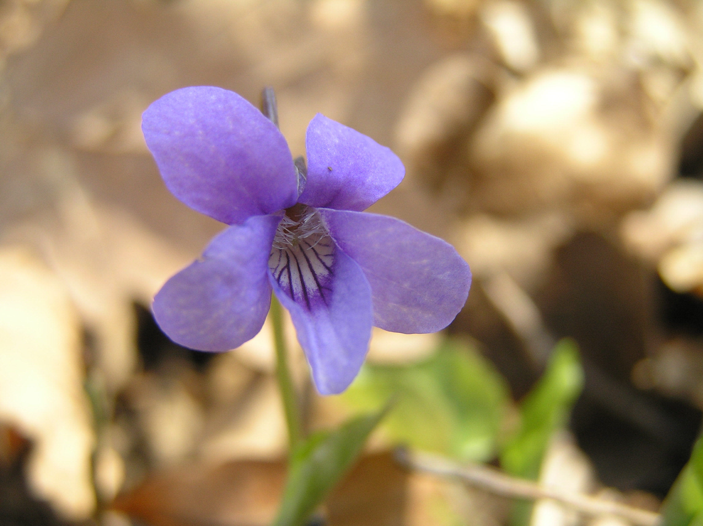 Viola reichenbachiana, Peliny near the town Choceň, Czech Republic